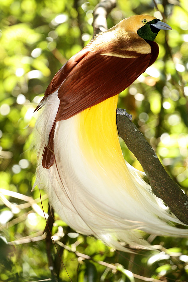 Lesser Bird-of-paradise (Paradisaea minor) at Taman Safary, Bogor, West Java